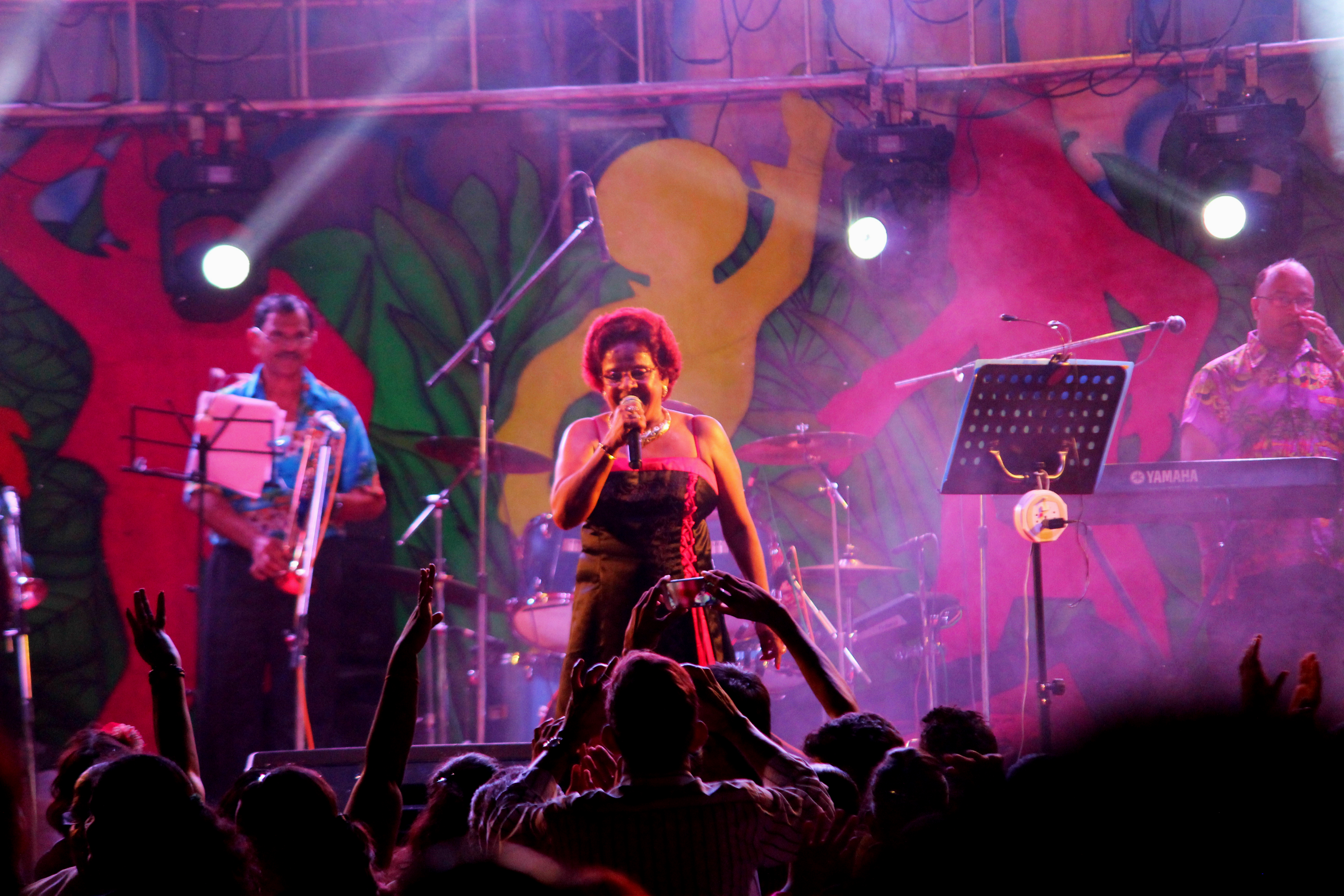 Lorna Cordeiro at a Musical Show in Merces, Tiswadi, Goa on 24th August 2015